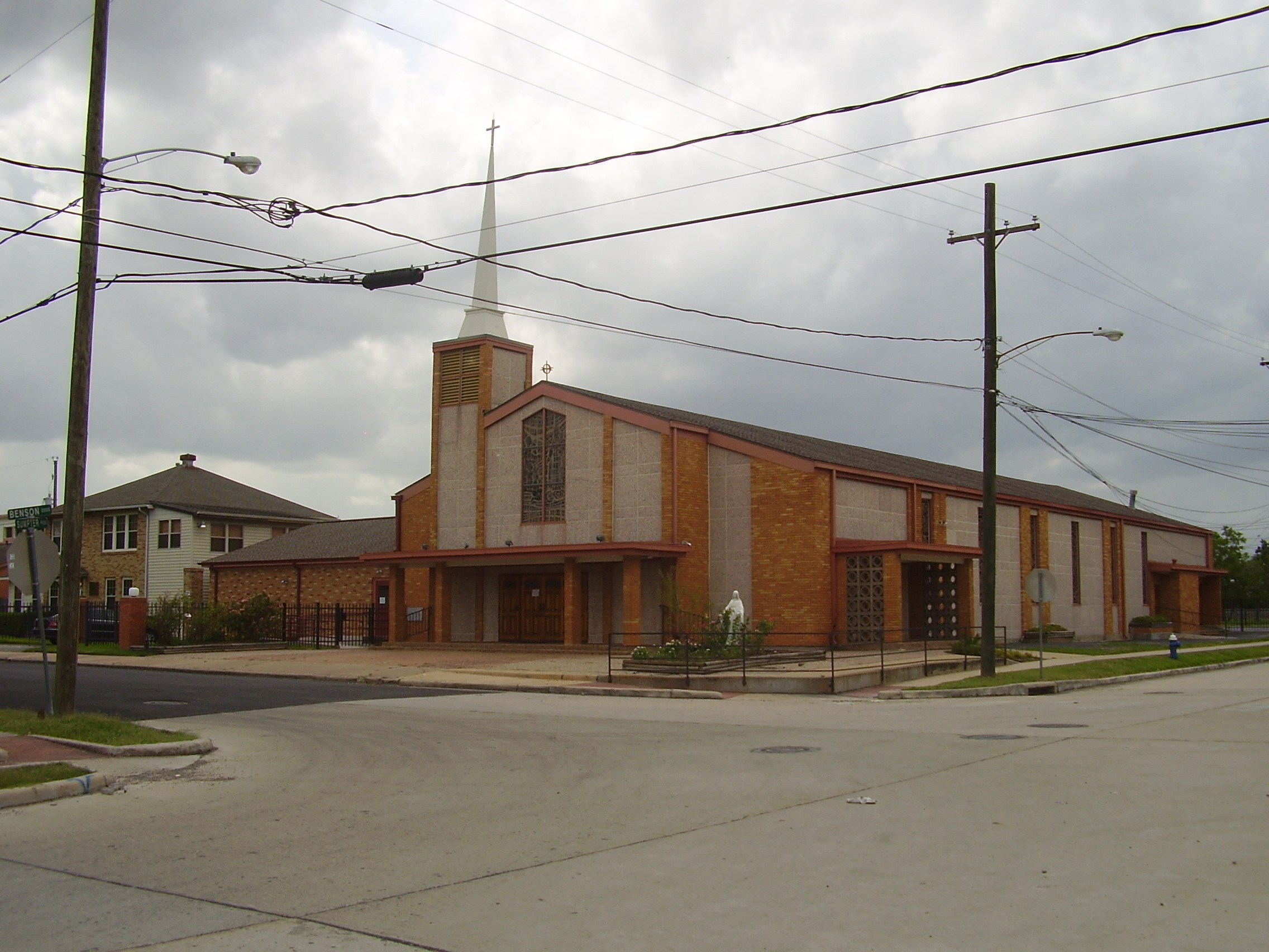 Our Mother of Mercy Catholic Church - 4000 Sumpter St., Houston, TX 77020-2497